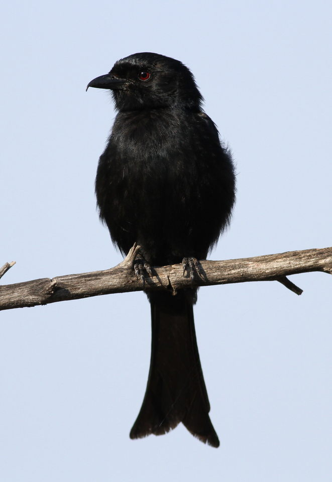 Fork-tailed Drongo, Dicrurus adsimilis, at Pilanesberg National Park, South Africa